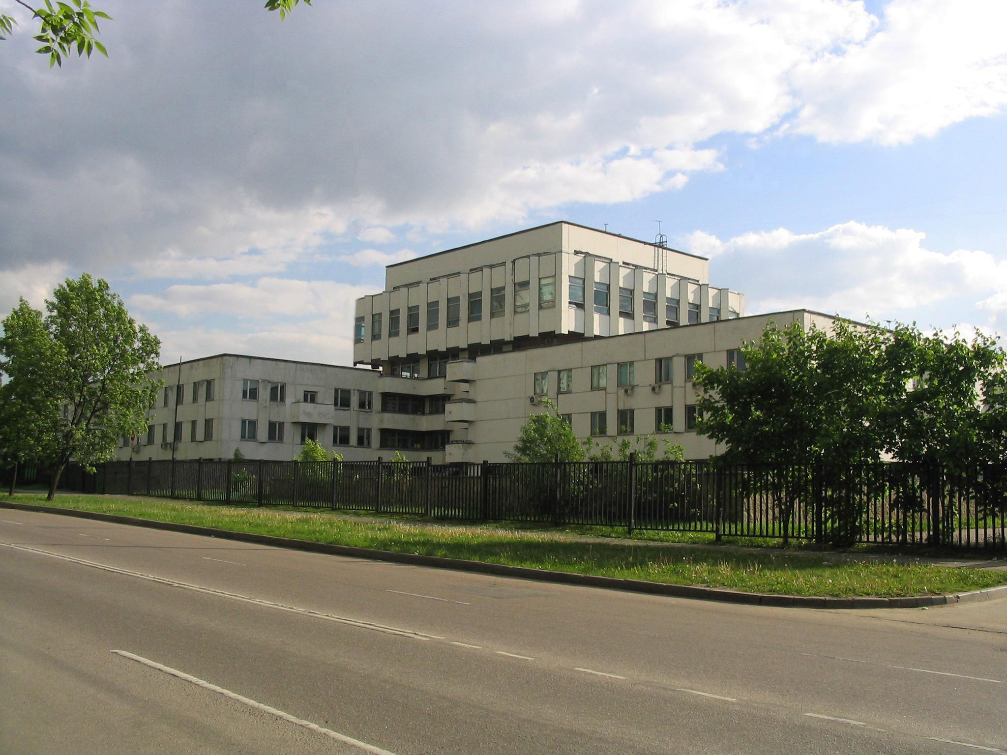 Buildings of the Moscow College of Management and New Technology.